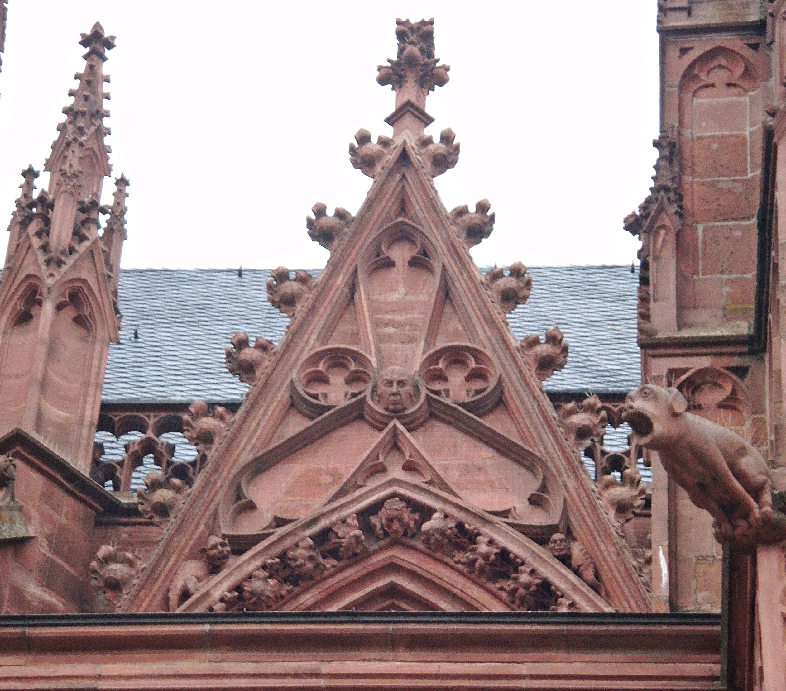 Katharinenkirche Oppenheim, Kopf von Theodor Heuss in einem Wimperg der Südseite